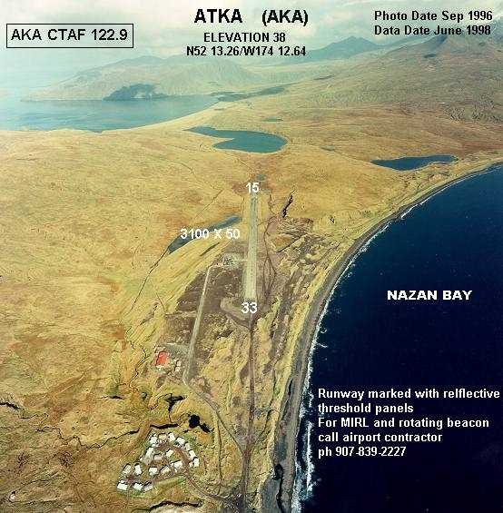 Annotated aerial photograph of Atka Airport (FAA: AKA) in Alaska, United States.